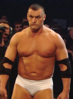 Vladimir Kozlov